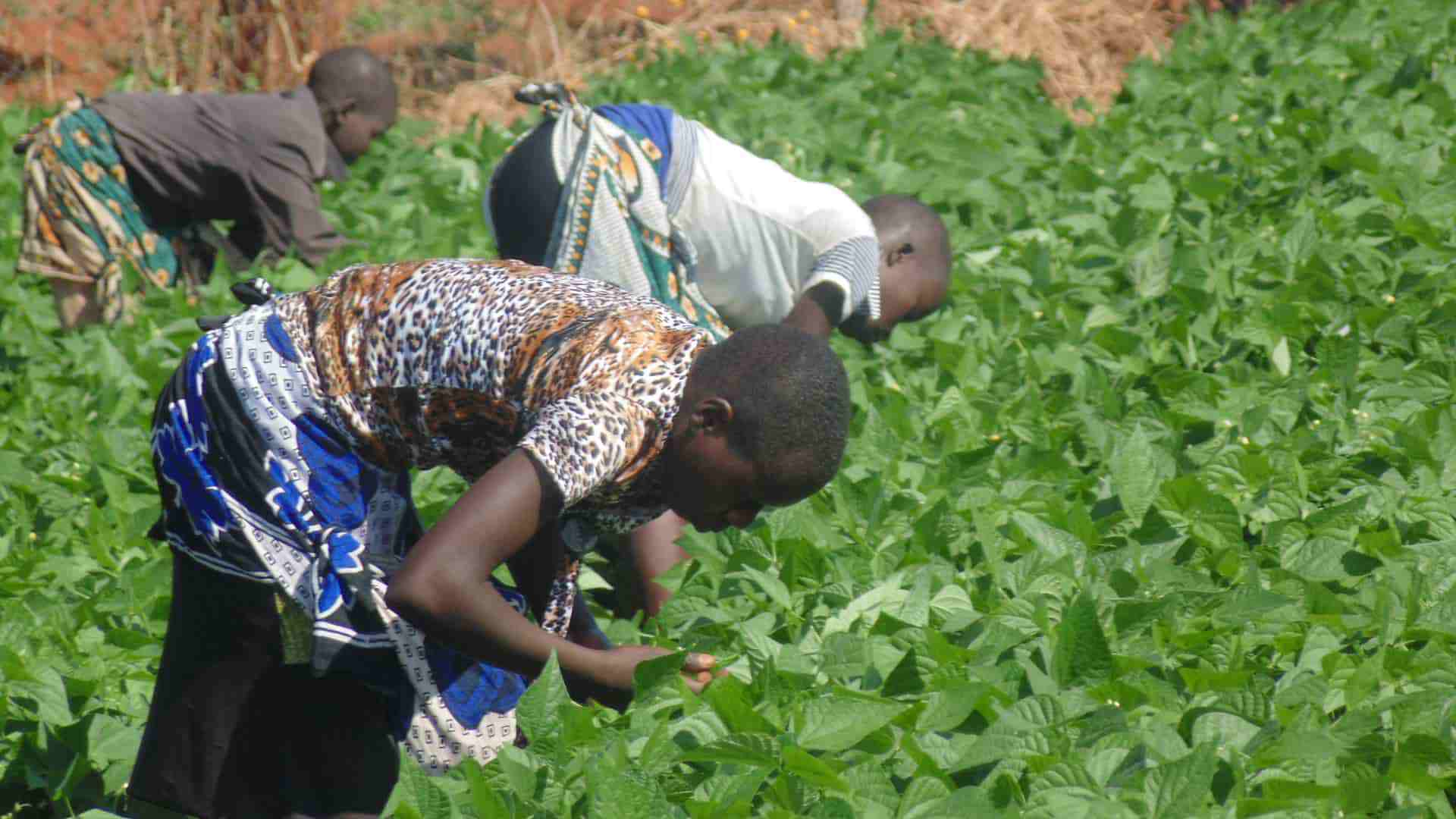 African Kids working in the family farm This is an image of "African people at work" from Kenya